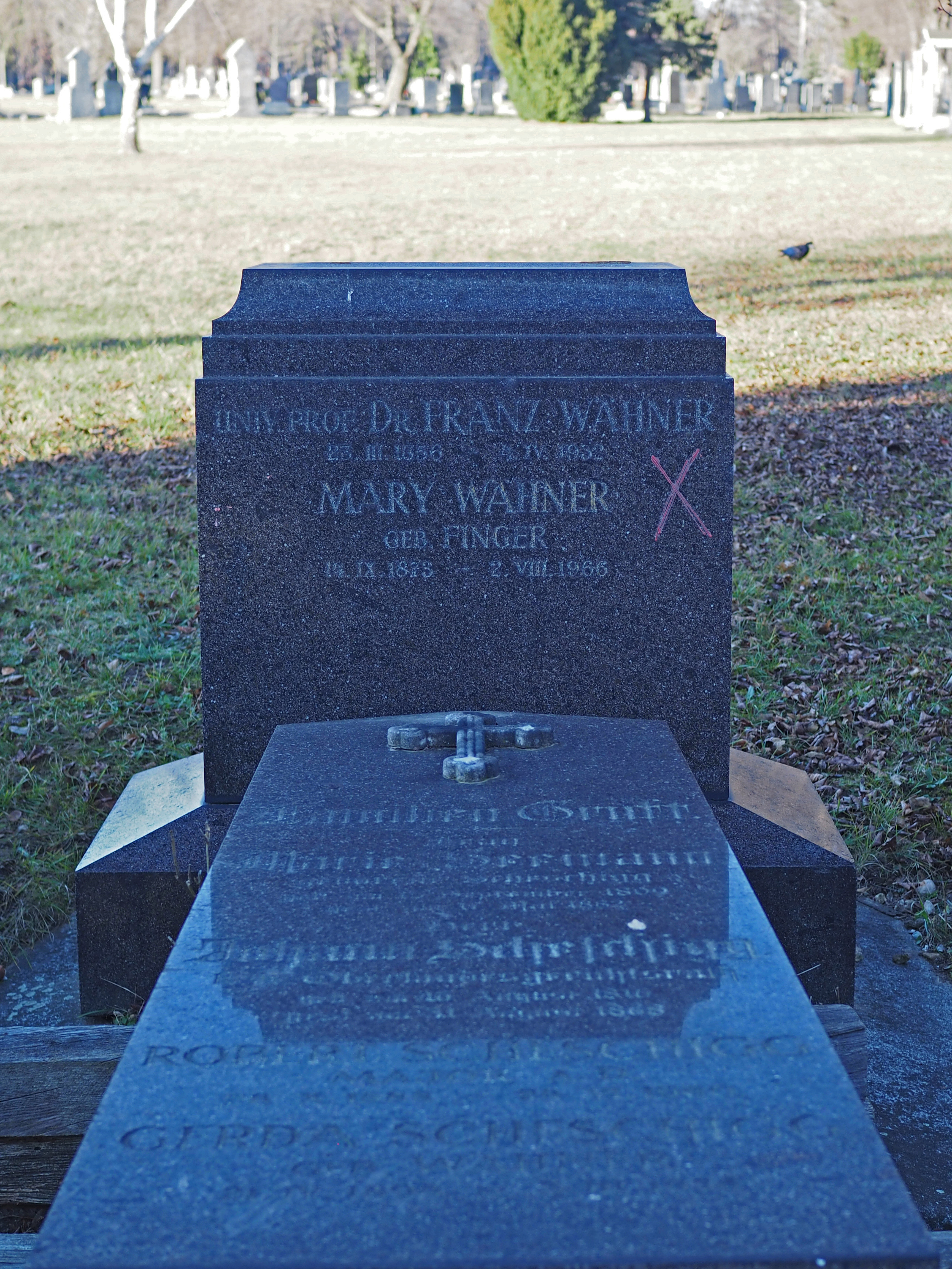 Grave of the geologist and paleontologist Franz Wähner (1856, Zlatý Kopec – 1932, Prague) at the Vienna Central Cemetery (gate 2, group 17B, row G1, number 2).